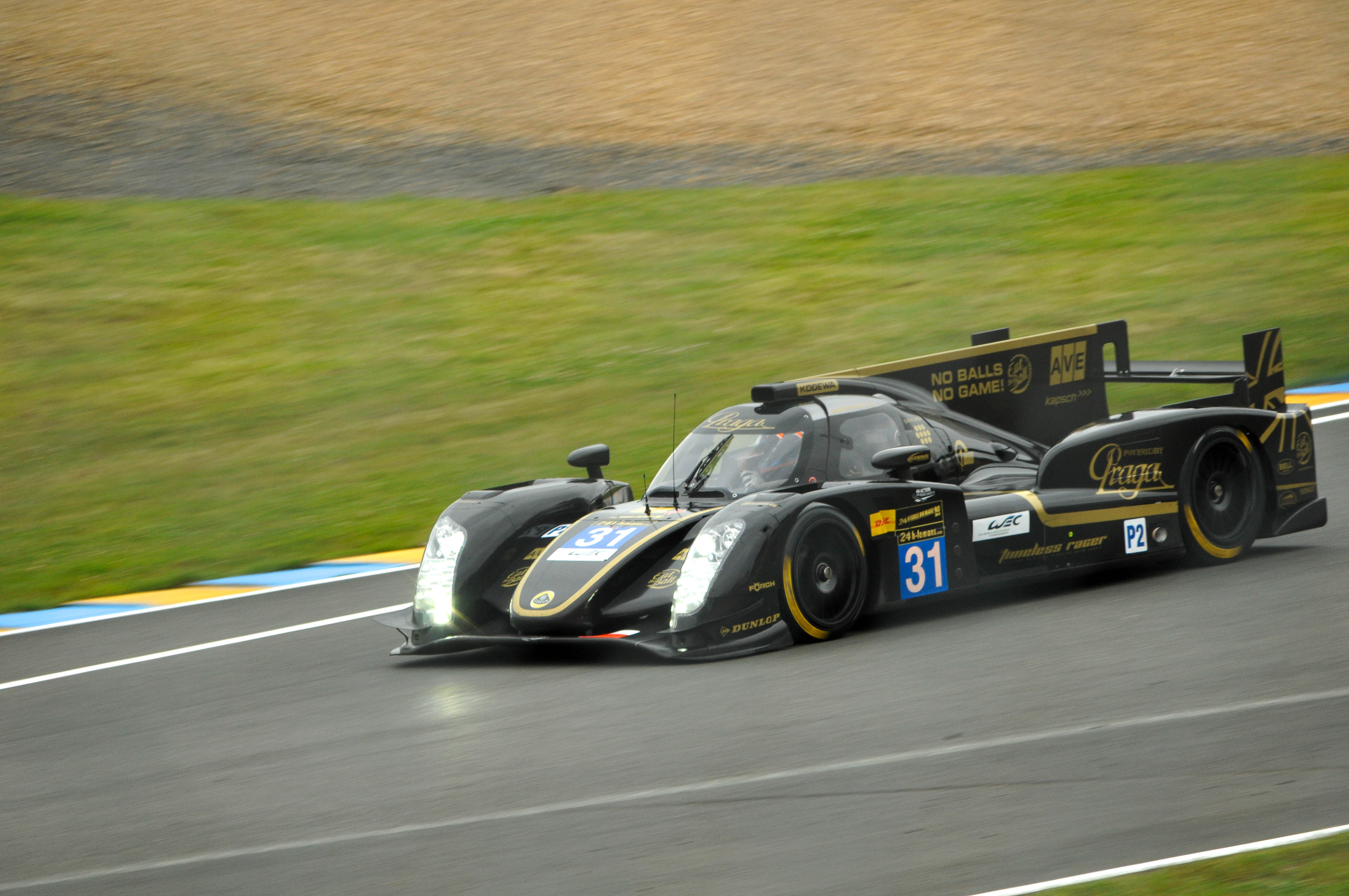 Le Mans 2013 (162 of 631)